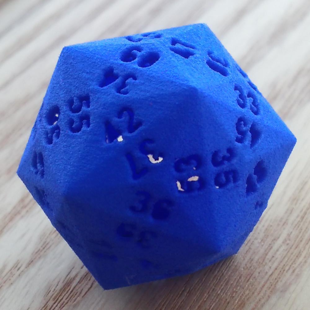 D60 triakis icosahedron